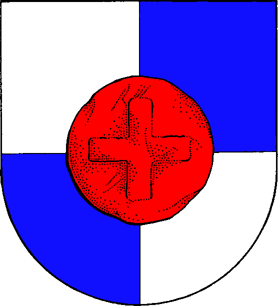 Coat of arms of the municipality Kosel in Schleswig-Holstein, Germany.